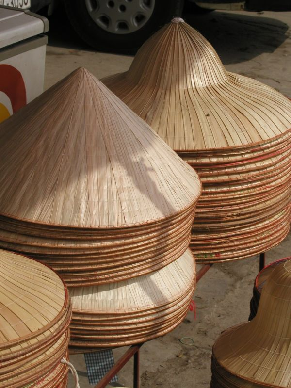 Conical hats made of banana wine. This hat is common in some countries from Southeast Asia and East Asia.